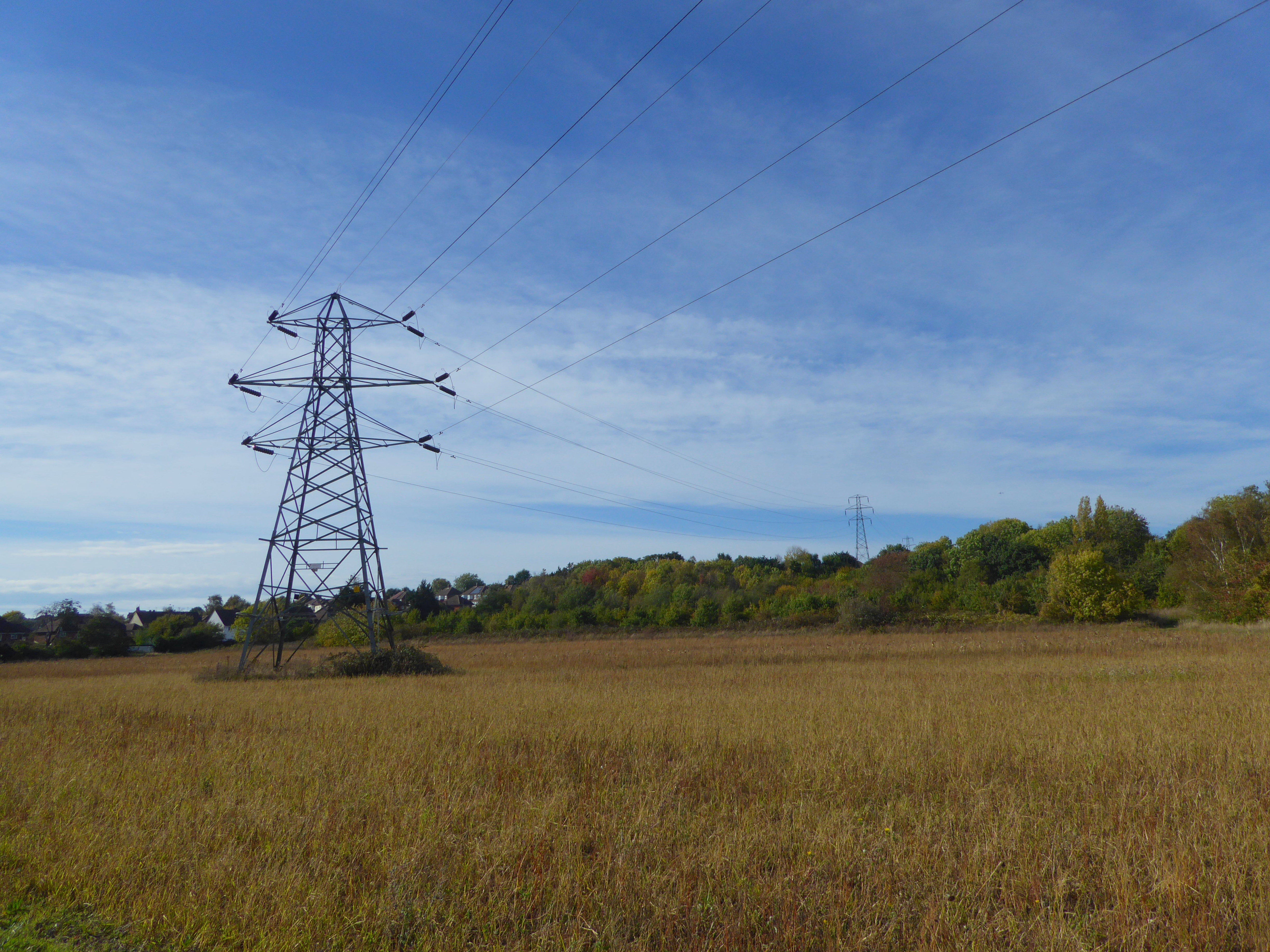 Farmland to the north of Albany Park and Foots Cray Meadows in the London Borough of Bexley.